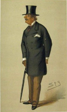 Caricature of Lt-General ir Alfred Hastings Horsford GCB. Caption read "The Beau ideal".